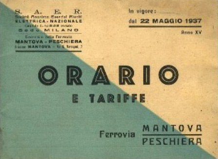 FMP 1937 timetable front page